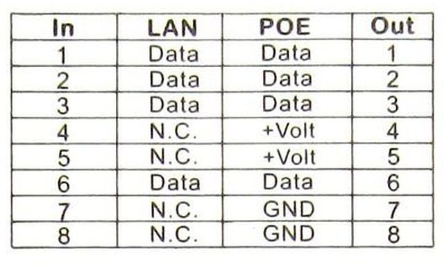 Pin out of a passive PoE (Power over ethernet) injector